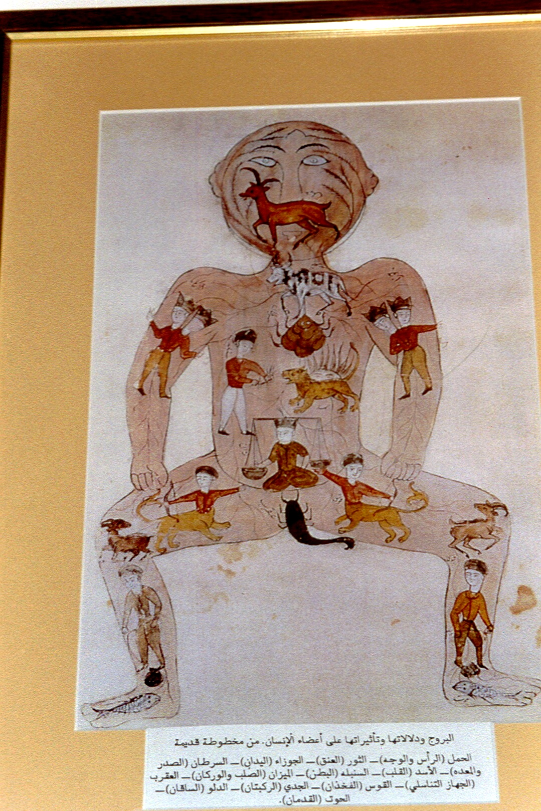 Nur al-Din Bimaristan, Damascus, Syria. Picture taken by me in June, 2001, with an automatic Olympus mju:zoom140 camera